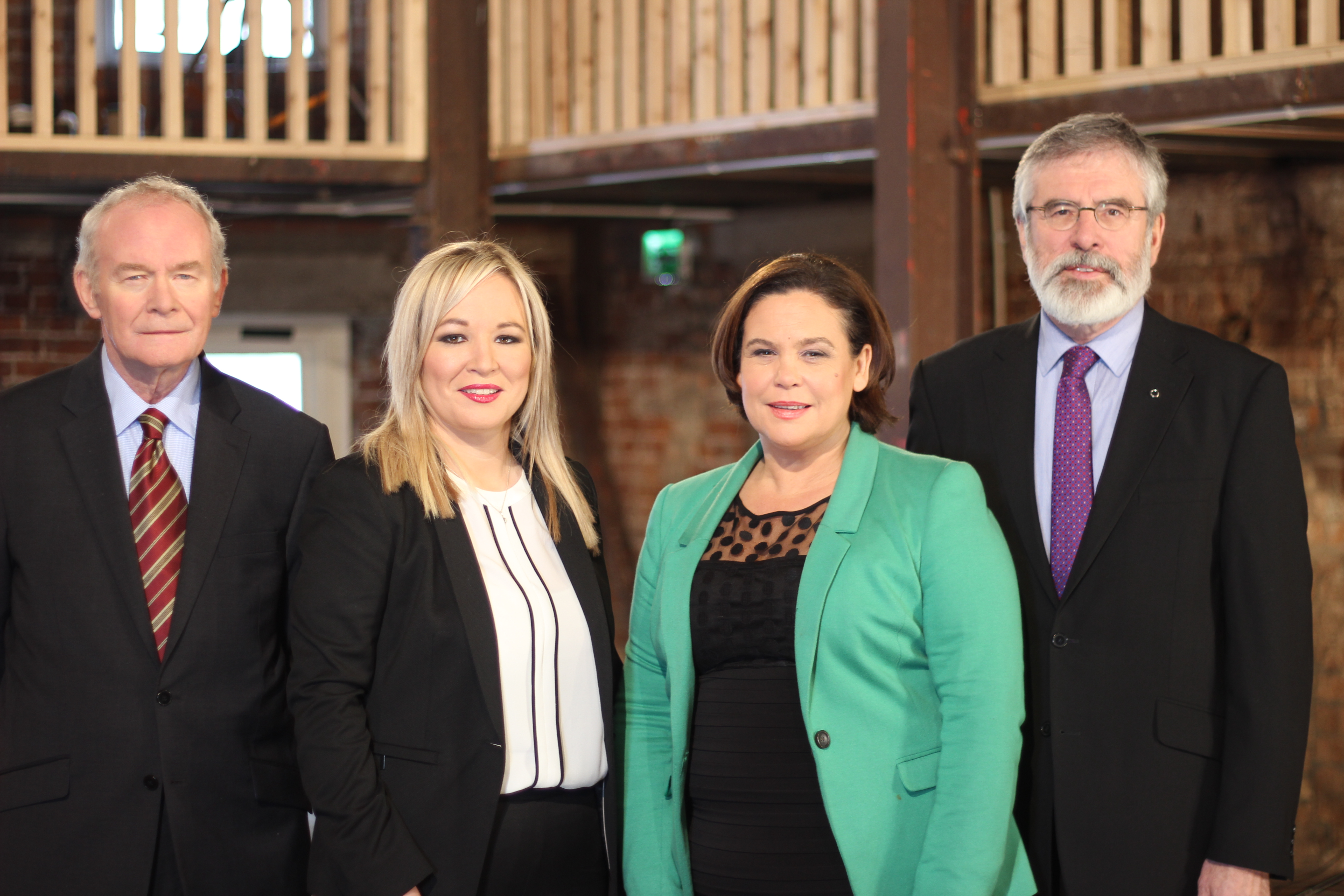 Martin McGuinness, Michelle O'Neill, Mary Lou McDonald and Gerry Adams